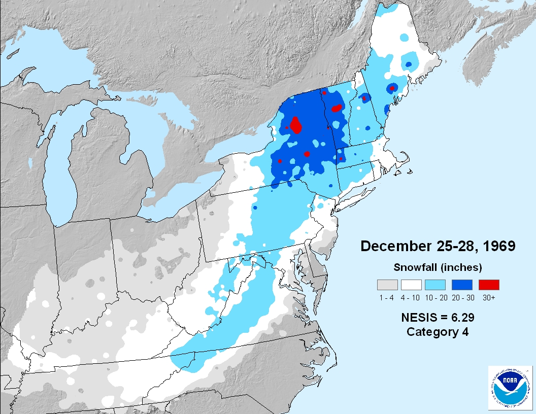 Snowfall map of the Christmas 1969 nor'easter.